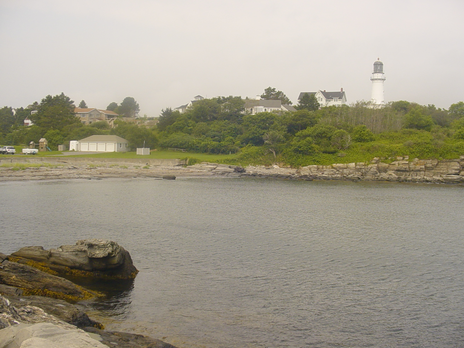 Cape Elizabeth Lights in Portland, Maine, USA